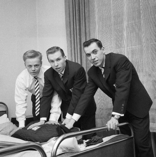 Photograph of the Finnish ski jumpers Veikko Kankkonen (1940–), Juhani Kärkinen (1935–2019) and Kalevi Kärkinen (1934–2004)